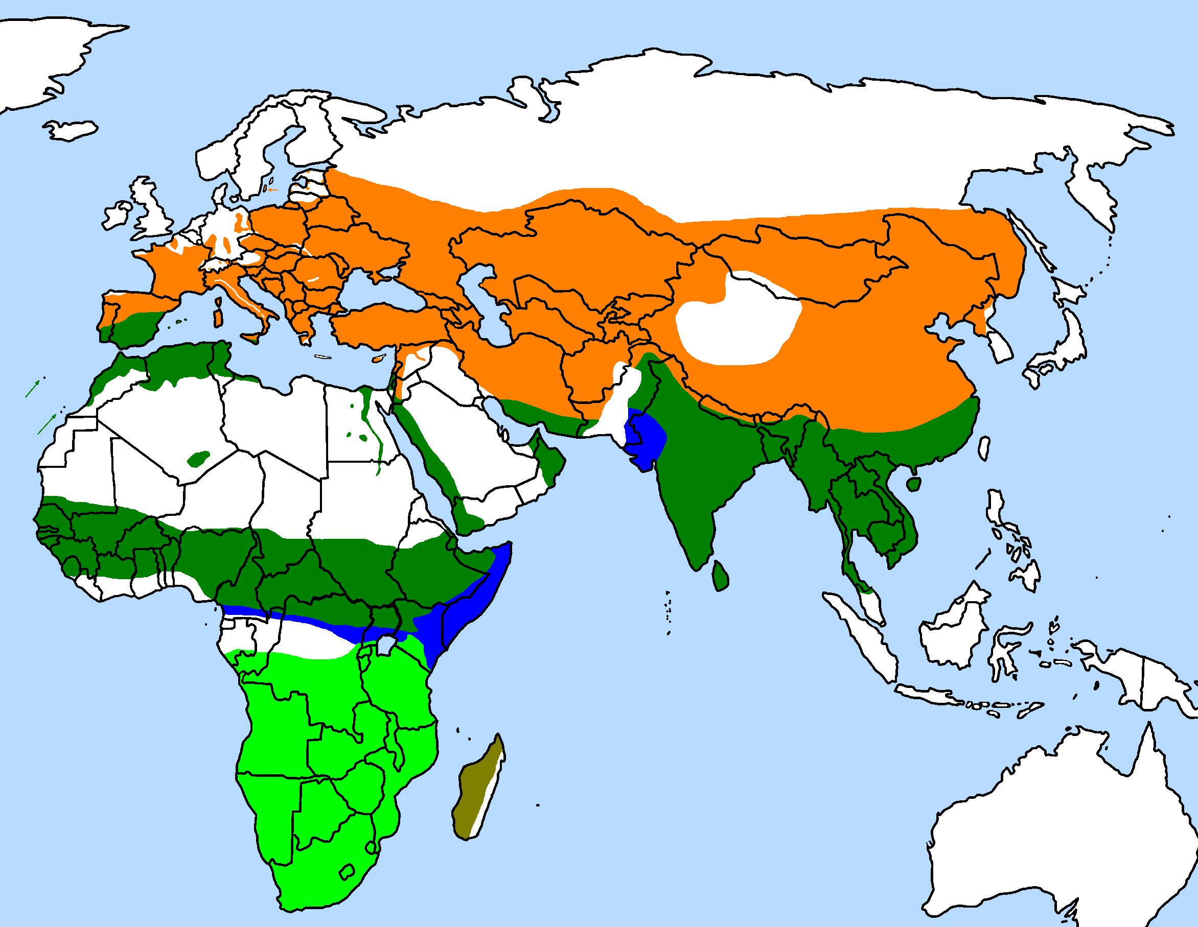 Combined distribution of all species of Upupa: Upupa africana (African Hoopoe) resident population Upupa epops (Eurasian Hoopoe) breeding summer visitor resident population wintering (also some overlap into northern edge of breeding range of U. africana) Upupa marginata (Madagascar Hoopoe) resident population